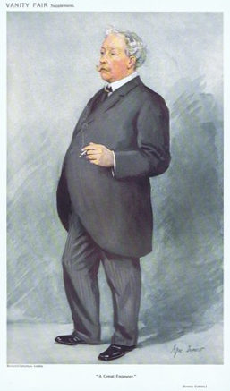 Caricature of Ernest Collins. Caption read "A Great Engineer".